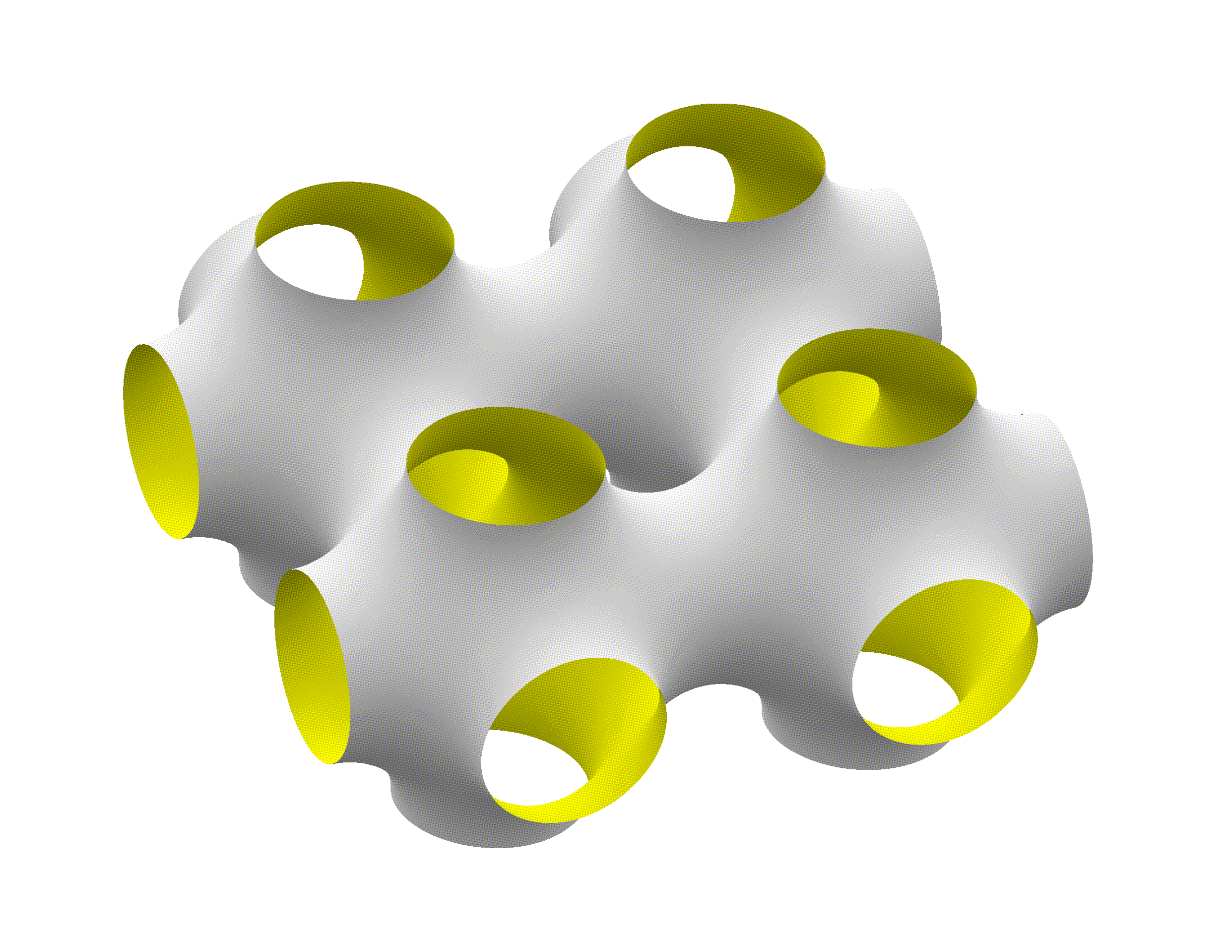 Approximation of the Schwarz P minimal surface generated using Ken Brakke's Surface Evolver program.